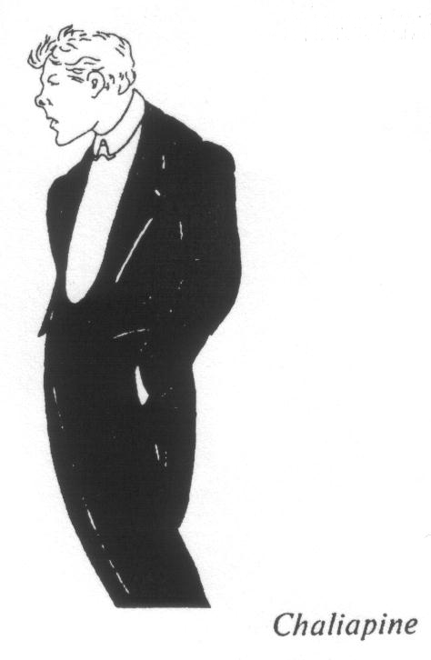 Caricature of Feodor Chaliapin